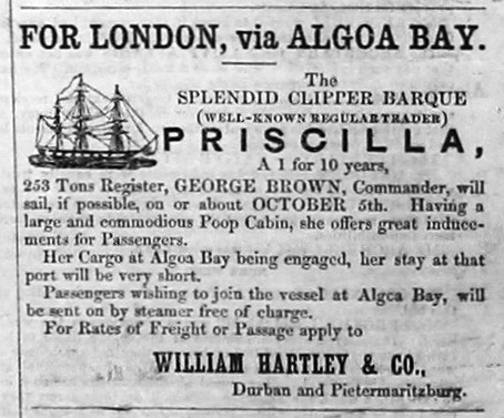 Advertisement in the 12 April 1861 Natal Mercury for passage to London on the ship Priscilla.